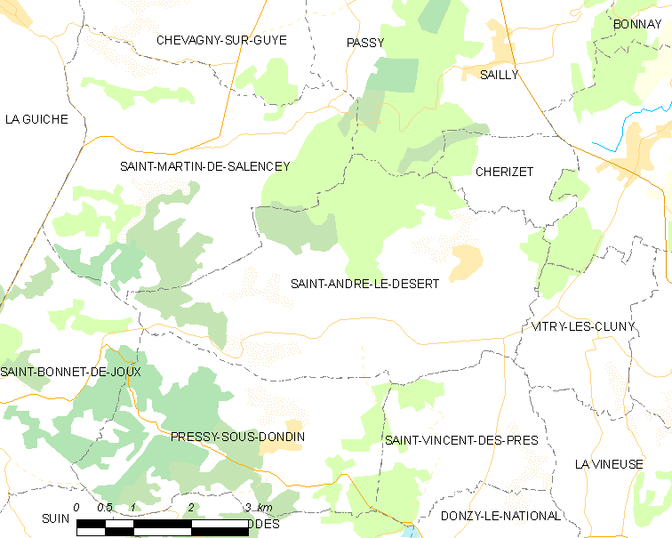 Map of French municipality